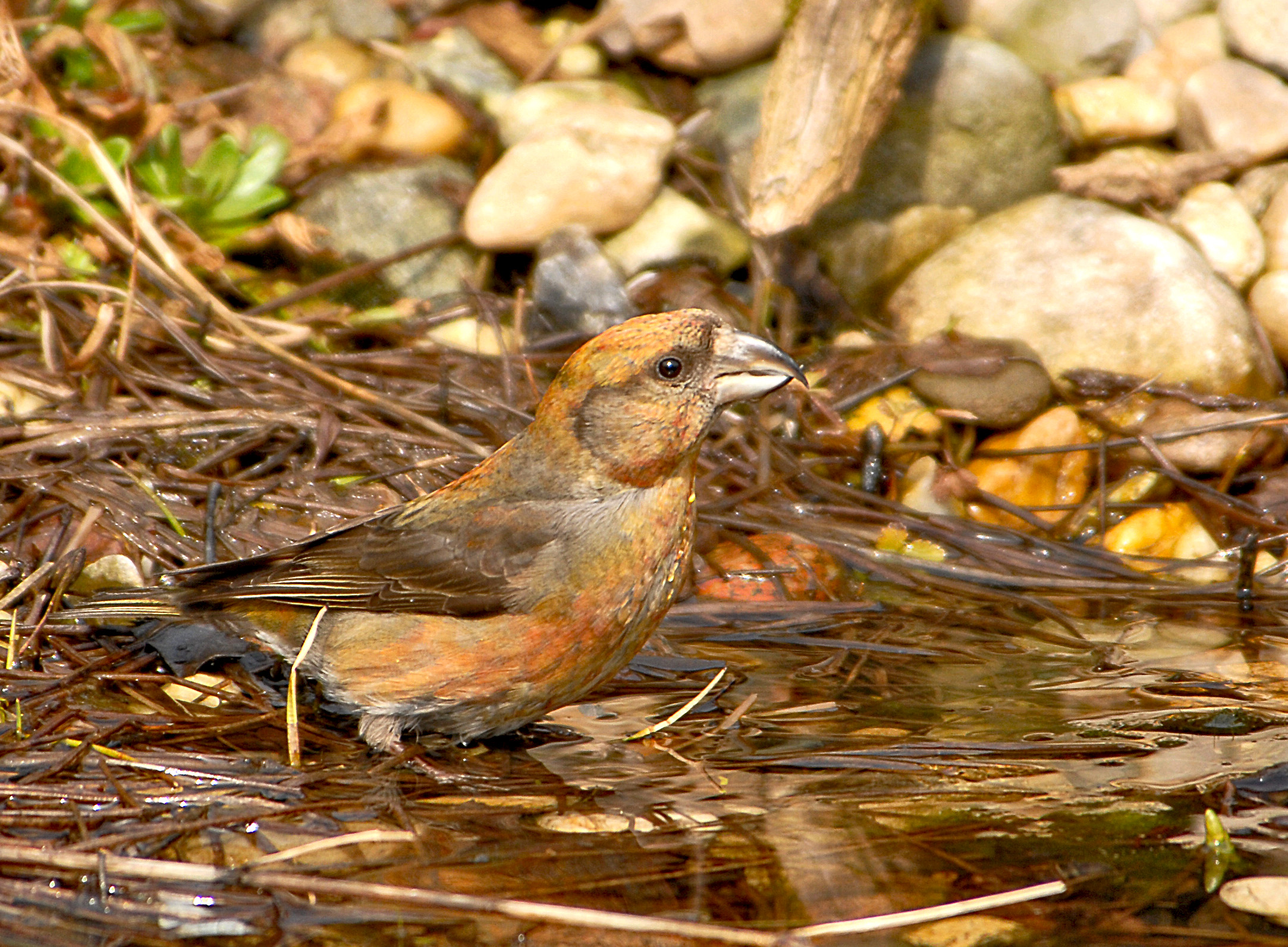 Common Crossbill (Loxia curvirostra) at a pond in Berlin